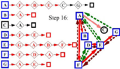 Dry run Depth-first search Algorithm in Graph, step 16